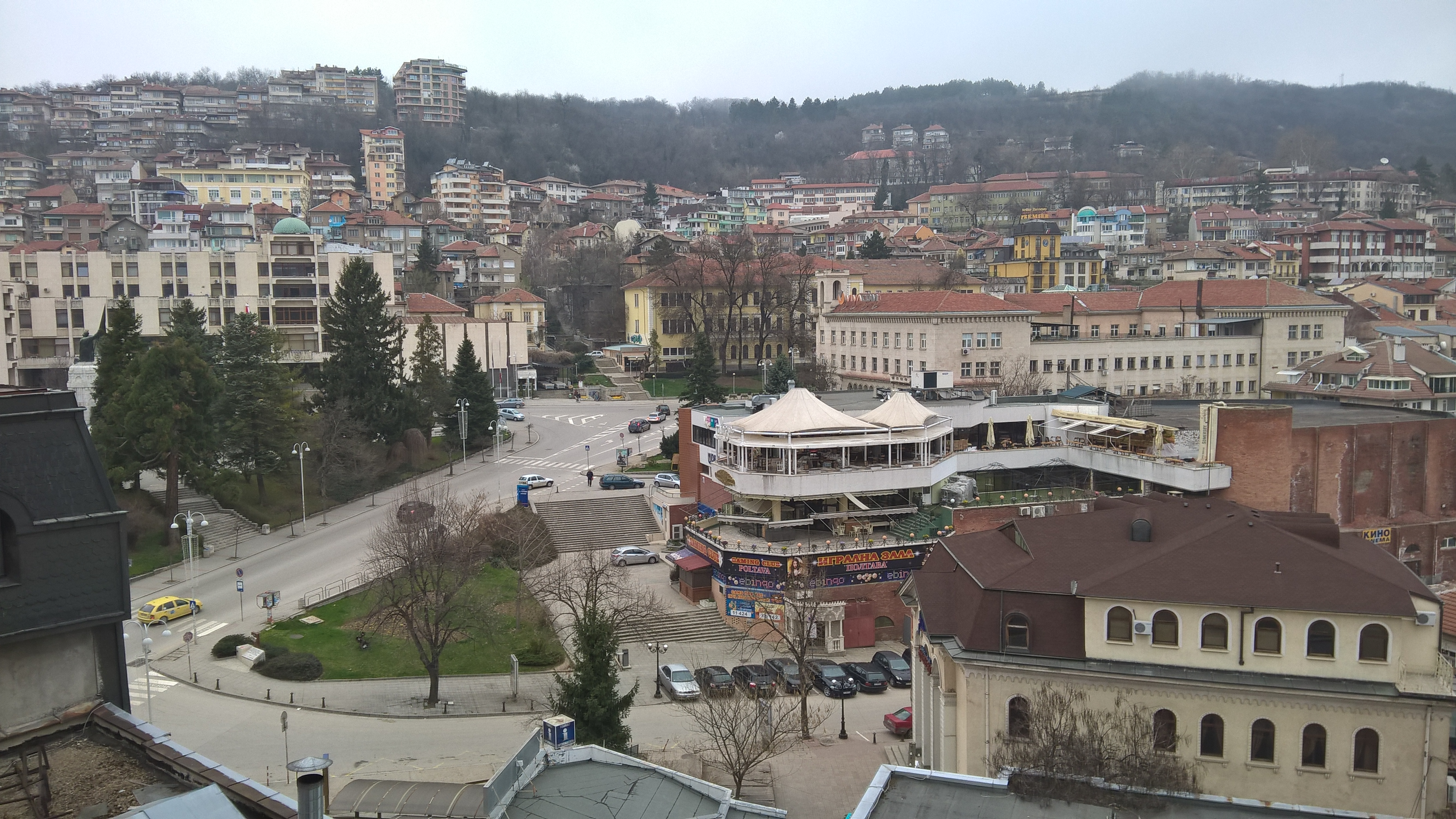 View of Veliko Tarnovo from a hotel window